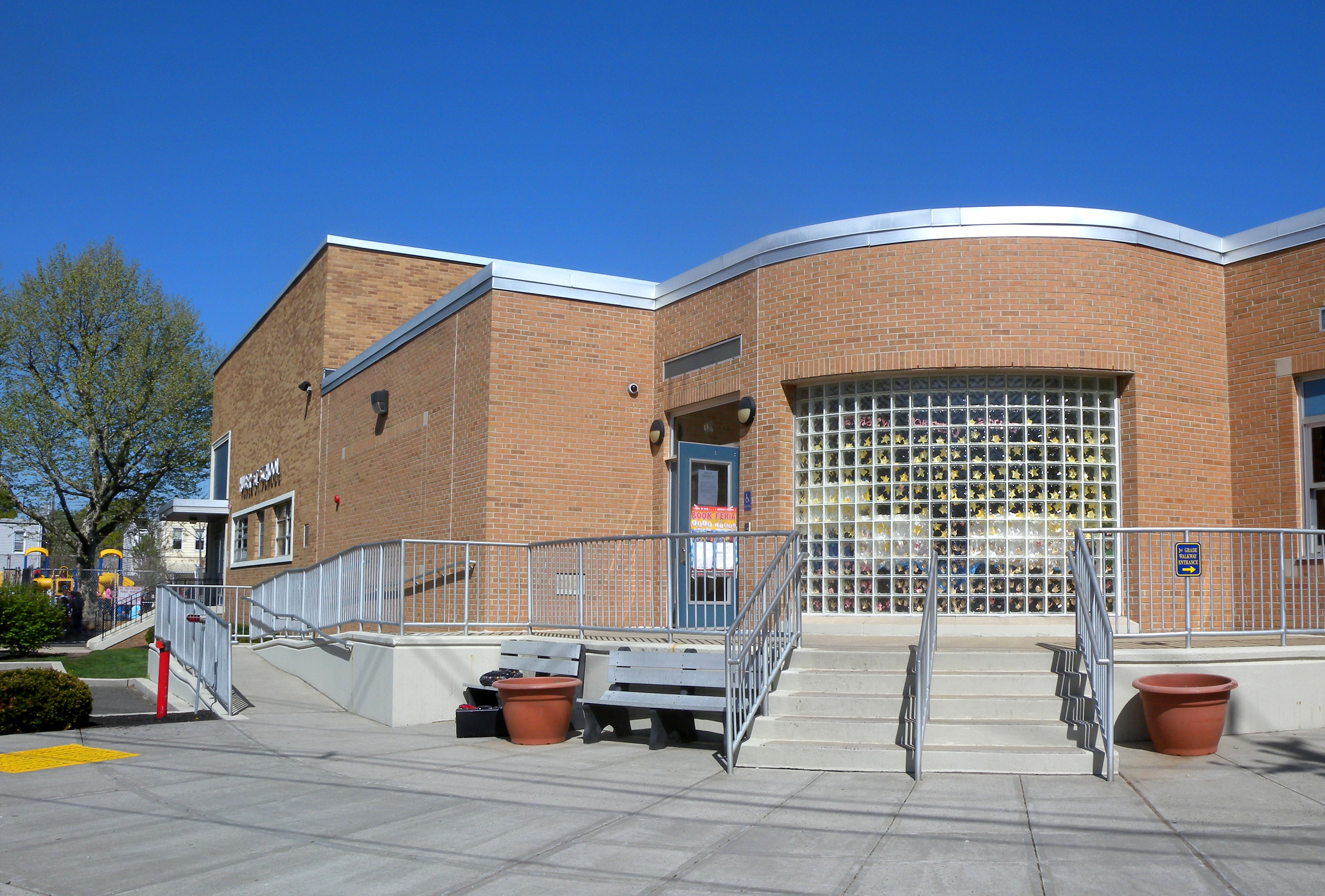 Looking northeast at Huber Street School on a sunny midday. Photographer misnamed the file by adding a "T" at the end of the street name.